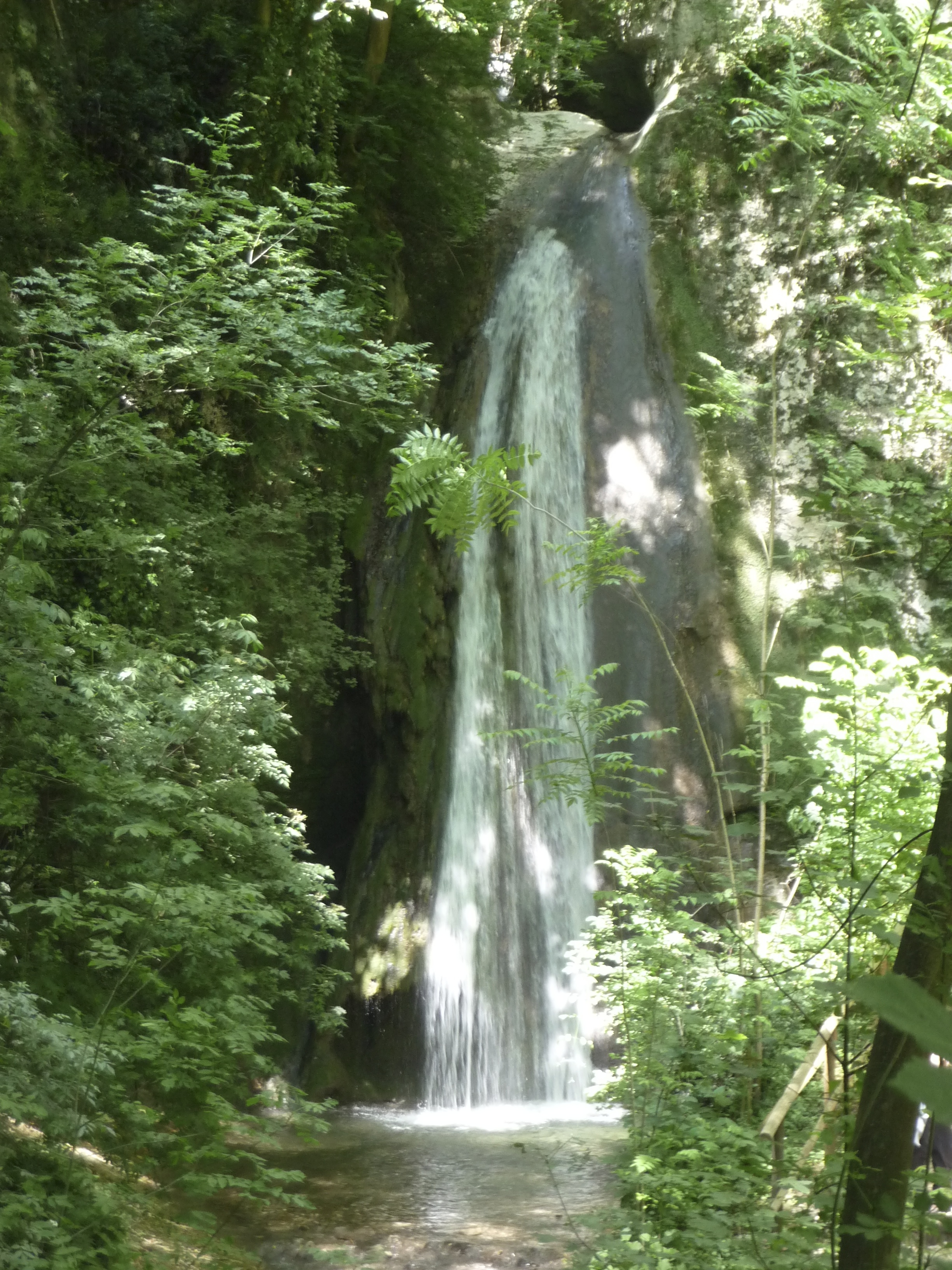 Natural park of the Cascate di Molina (Molina Falls) in Fumane, Verona, Italy.